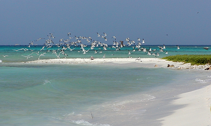 Flock of gulls, Las Aves Archipelago, Venezuela